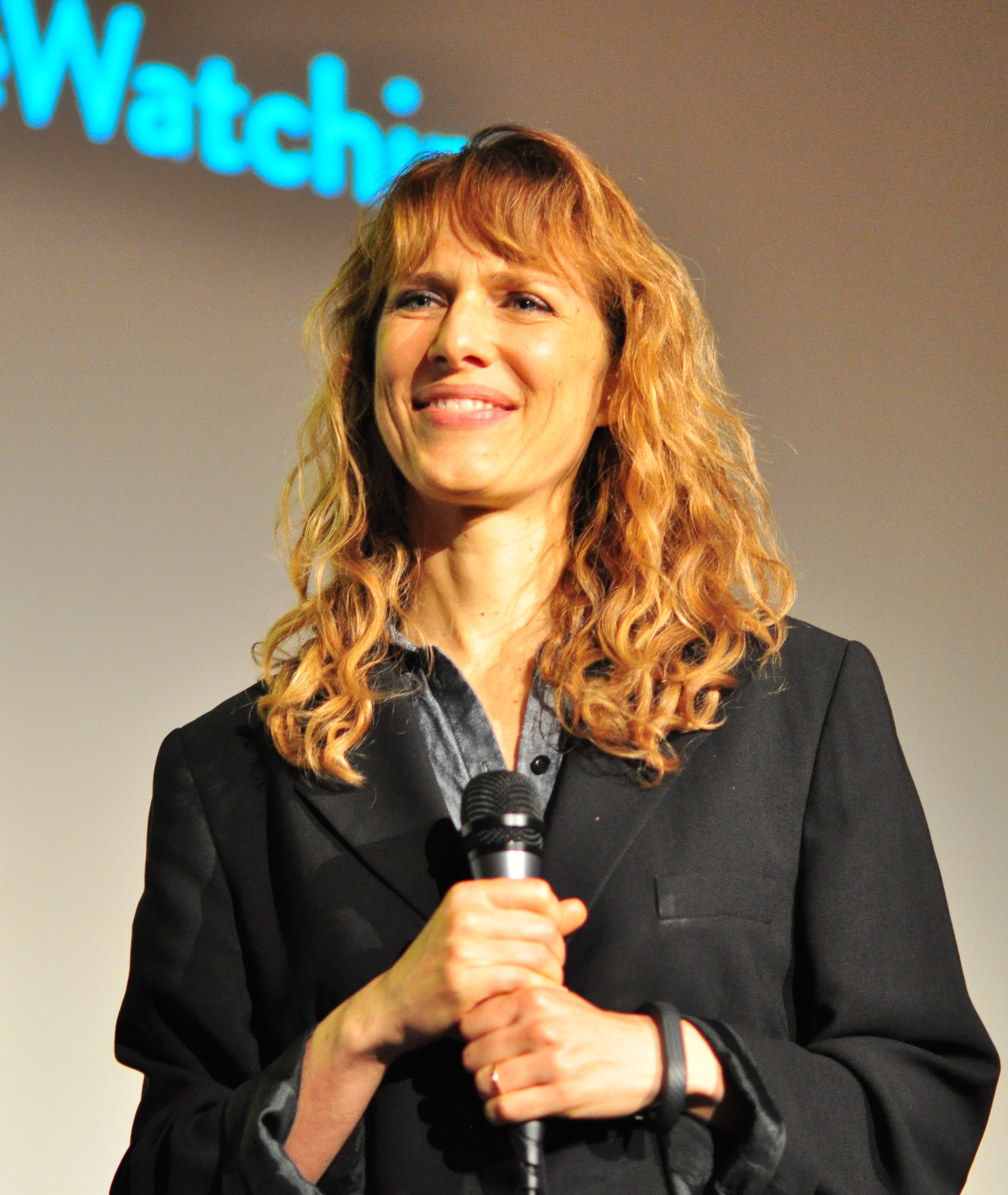 Seattle filmmaker Lynn Shelton at the Harvard Exit cinema in Seattle, Washington, during the 2015 Seattle International Film Festival, where she moderated discussion of Ross Partridge's film Lamb.